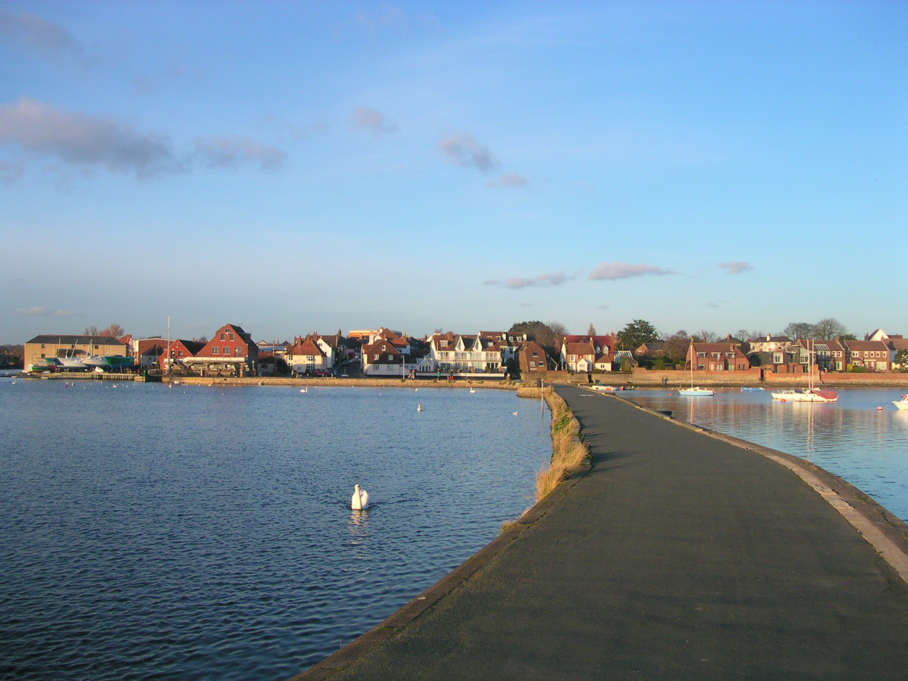 Emsworth from the Mill Pond wall